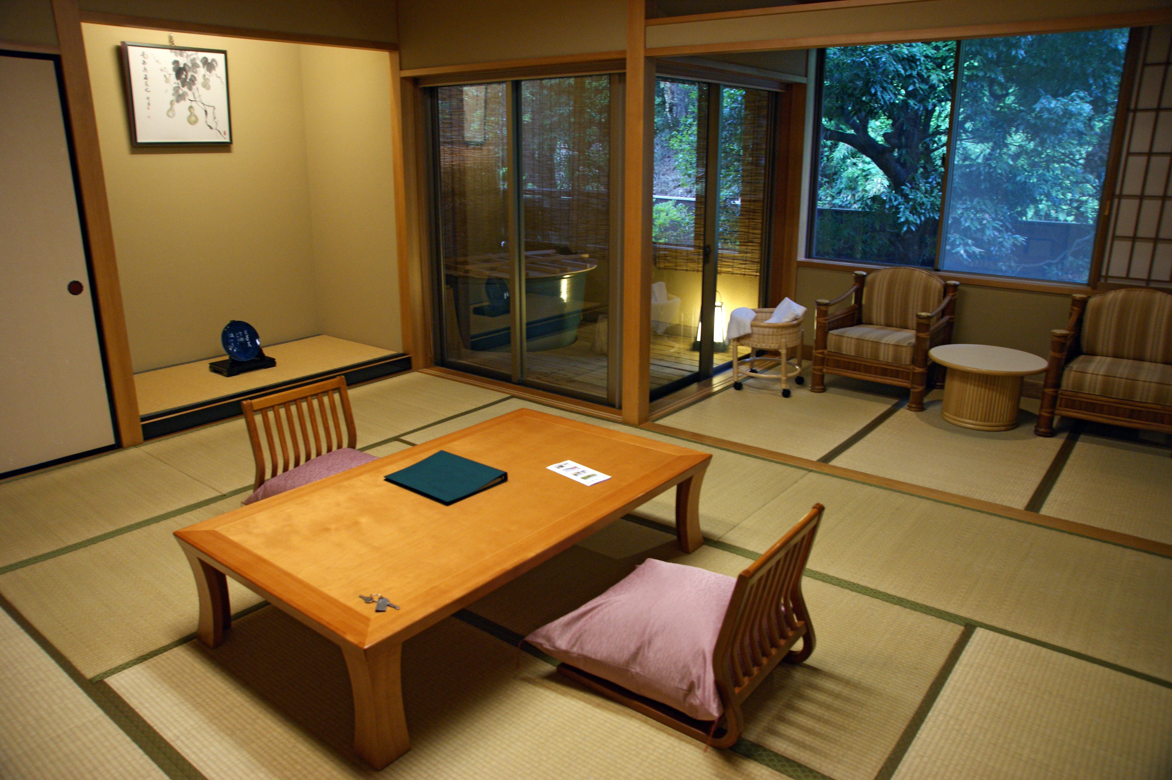 Tamatsukuri Onsen in Matsue, Shimane prefecture, Japan